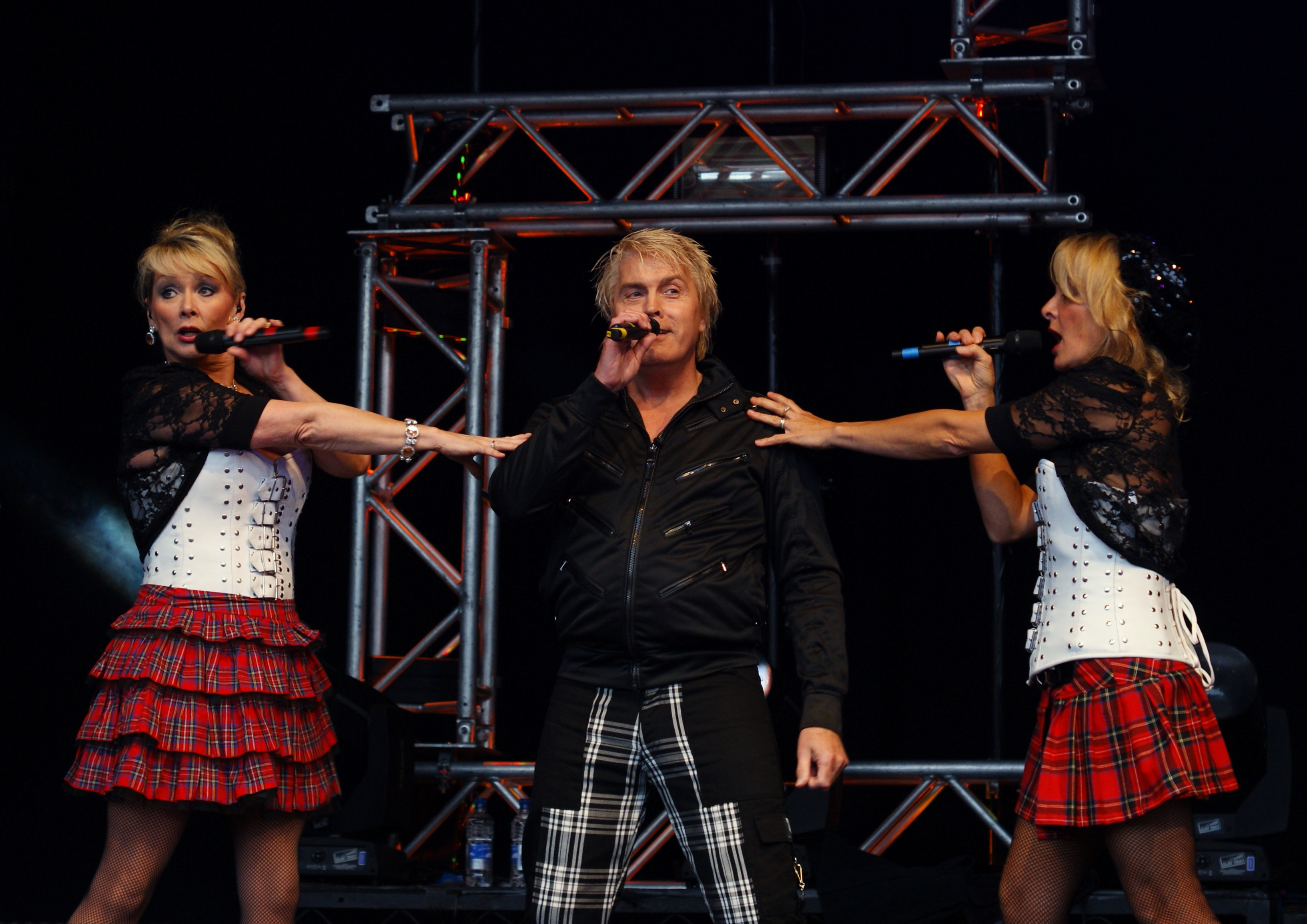 The Original Bucks Fizz performing at Manchester Pride on Monday the 29th of August 2011